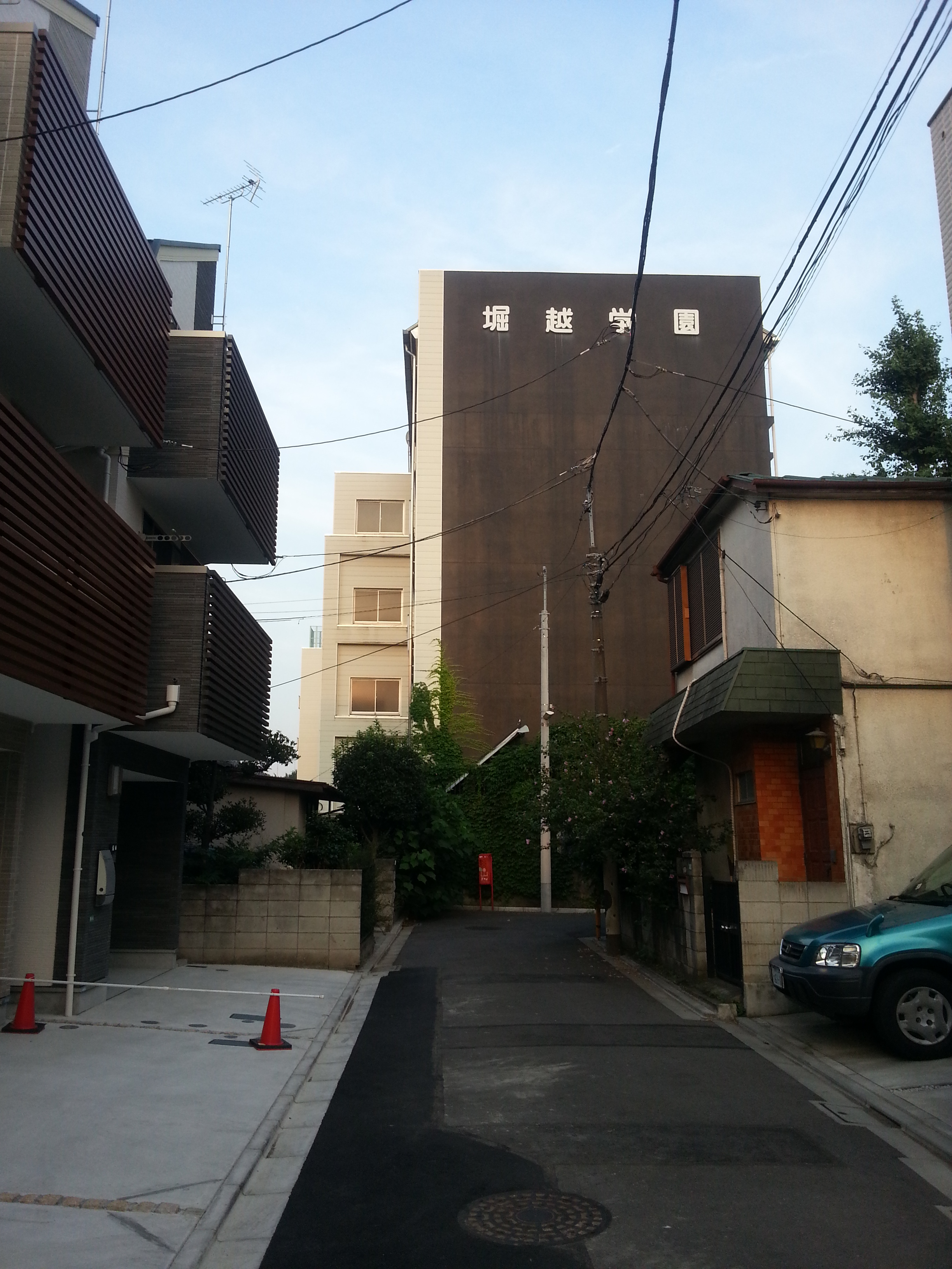 Horikoshi High School